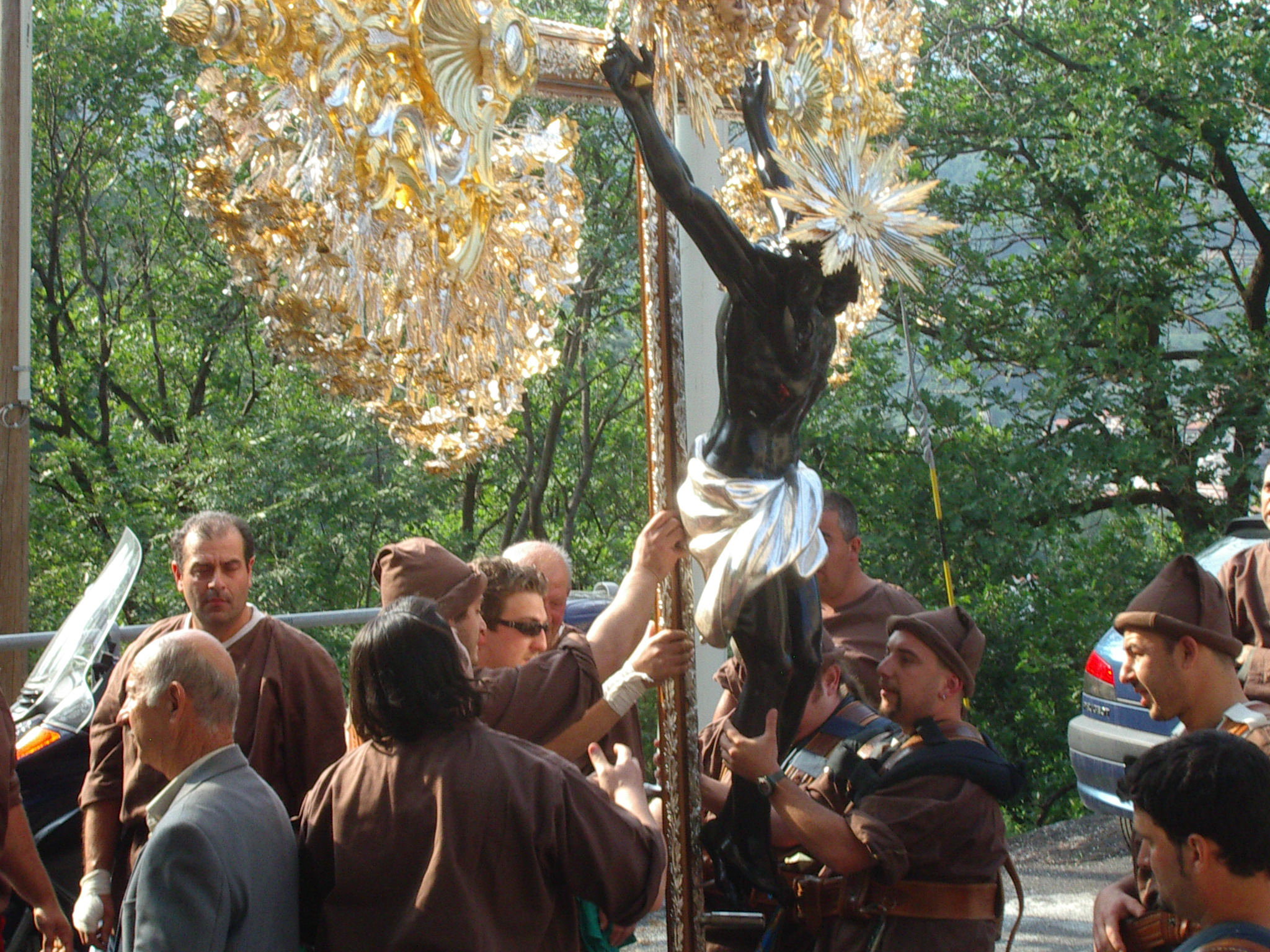 Procession in Giustenice with the black Christ of Boissan